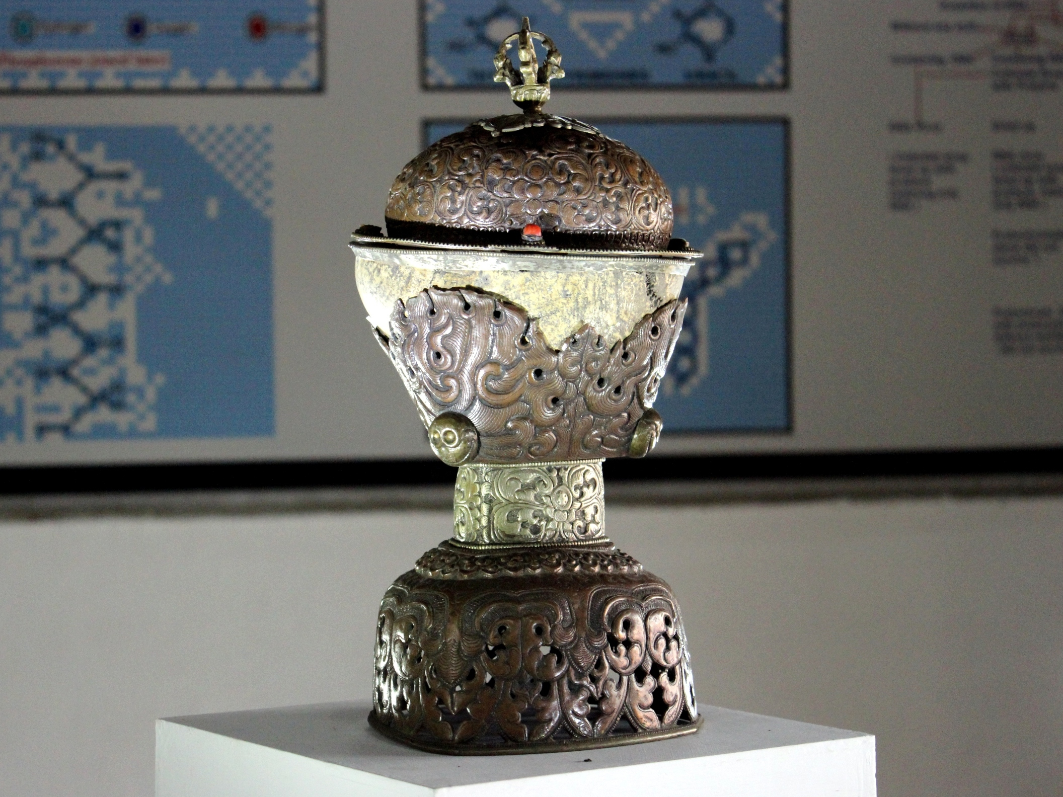 A kapala (Sanskrit for "skull") or skullcup is a cup made from a human skull used as a ritual implement (bowl) in both Hindu Tantra and Buddhist Tantra (Vajrayana). Especially in Tibet, they were often carved or elaborately mounted with precious metals and jewels.